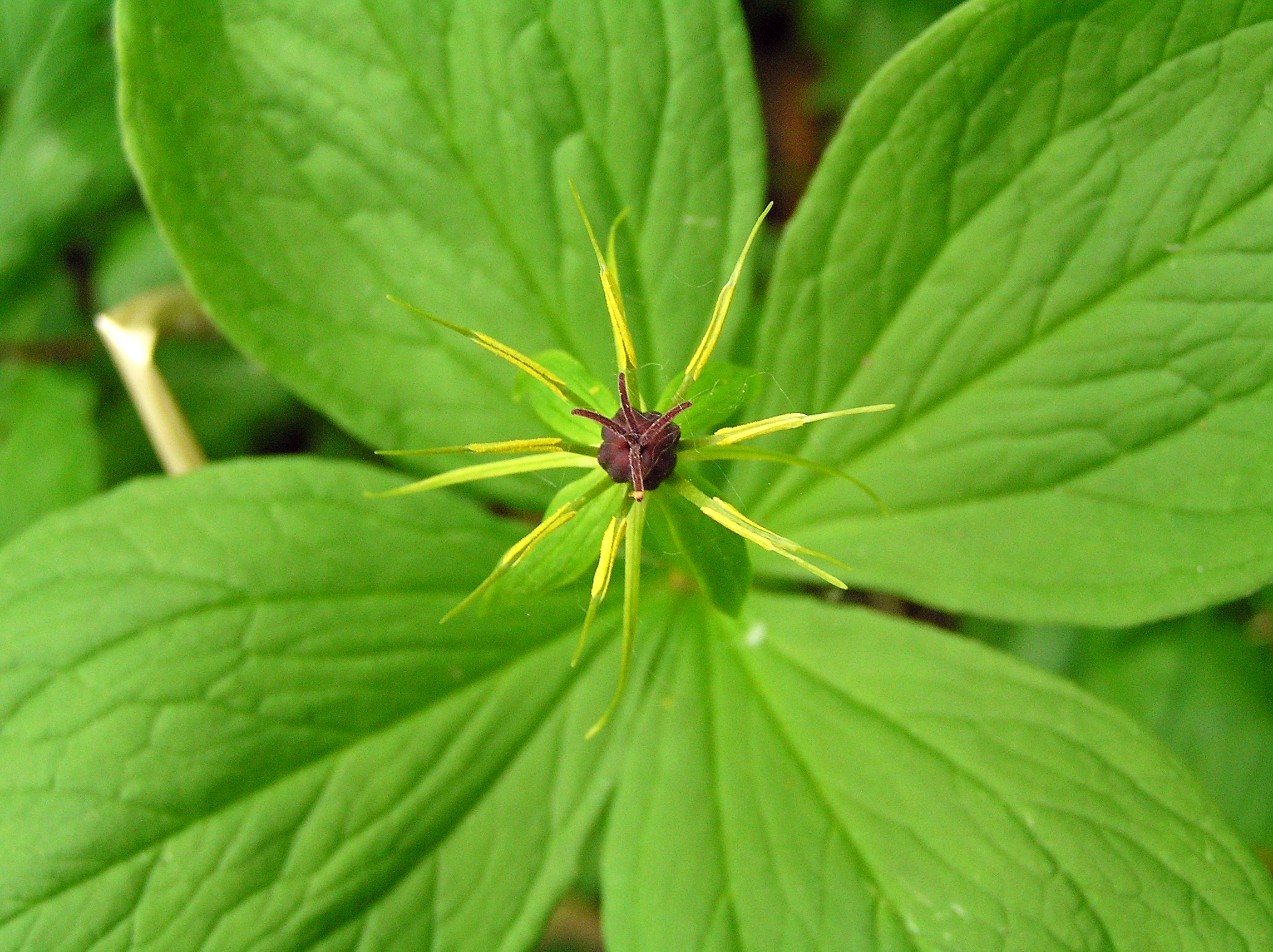 Estonia, Põlva County